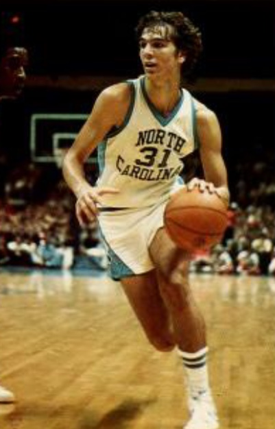 University of North Carolina Tar Heels basketball player Mike O’Koren from the 1977 “Yackety Yack” yearbook.